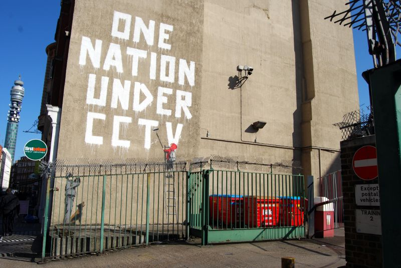 Located in Central London. A group of gentlemen badgered the Royal Mail about construction work that needed doing on one of the walls. After many requests the Royal Mail eventually agreed to let these "builders" put up scaffolding and sort out whatever problem there was. 6 days later the scaffolding came down and 'one nation under CCTV' was all that remained. It can be seen from far off and many people are drawn to it without even realizing it's a Banksy. Despite attempts to save it this piece is no longer there. The only difference the public support made was that it was painted over (in March 2009), as opposed to removed.